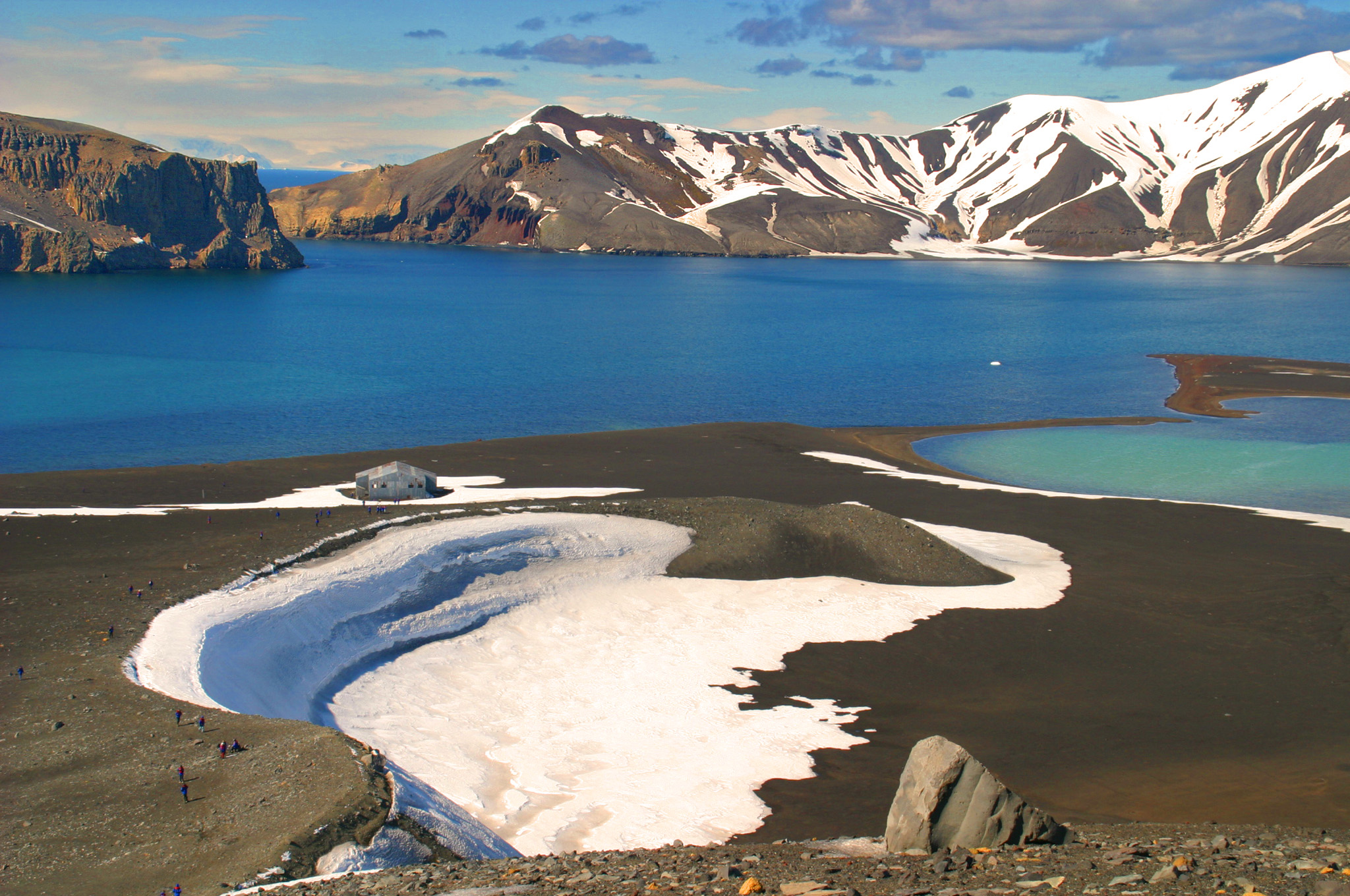 . View of Whalers Bay and Neptune's bellows of Deception Island crater. Deception Island (Antarctic, Bransfield Strait) is one of the largest crater islands in the world, with an extension of 13 kilometers by 14 kilometers. Ships can enter the extensive crater lake through a narrow opening (Neptune's bellows).